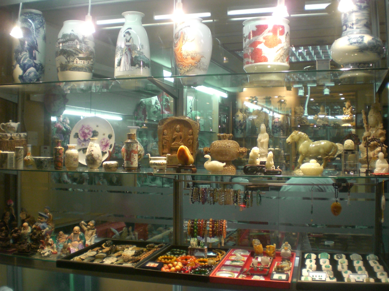 Shops in Central District, Hong Kong. Author= Saiyans16